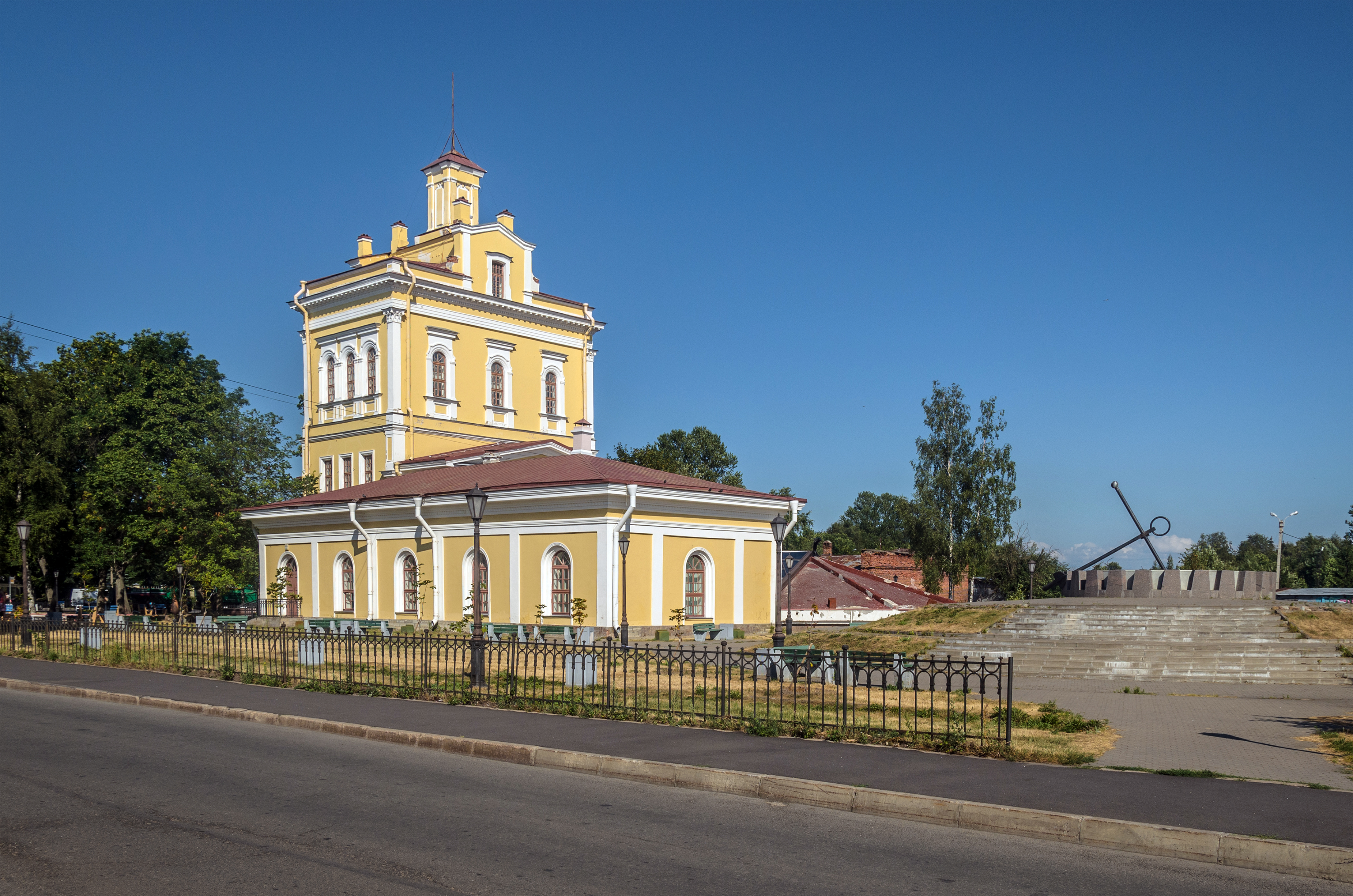 Water Tower Complex in Kronstadt (Kronstadt History Museum)